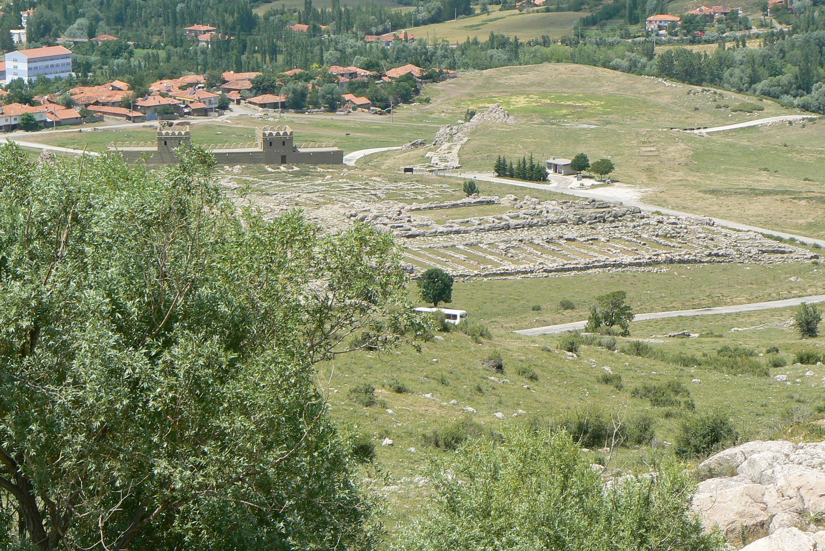 The Lower City with the reconstructed wall and the ruins of the Great Temple, Hattusa, Turkey